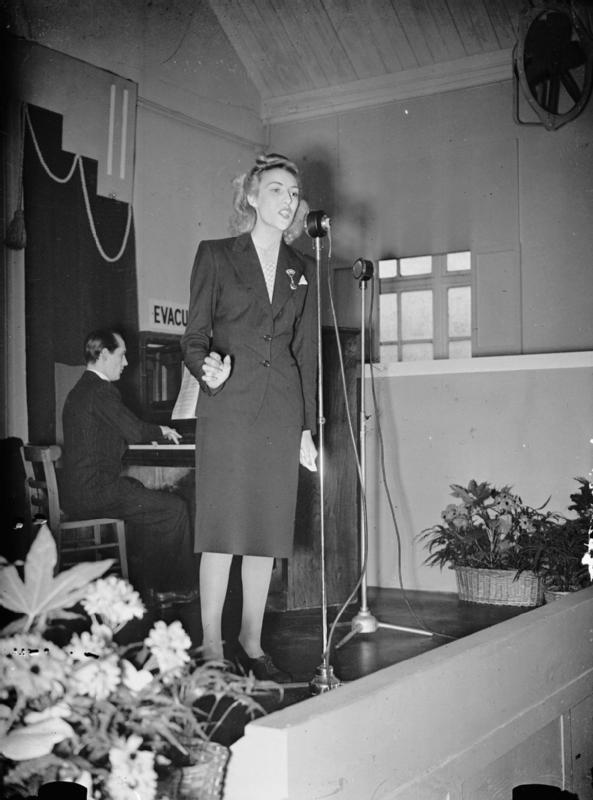 Vera Lynn Visits a Munitions Factory, UK, 1941 Vera Lynn sings to workers during a lunchtime concert at a munitions factory, somewhere in Britain.